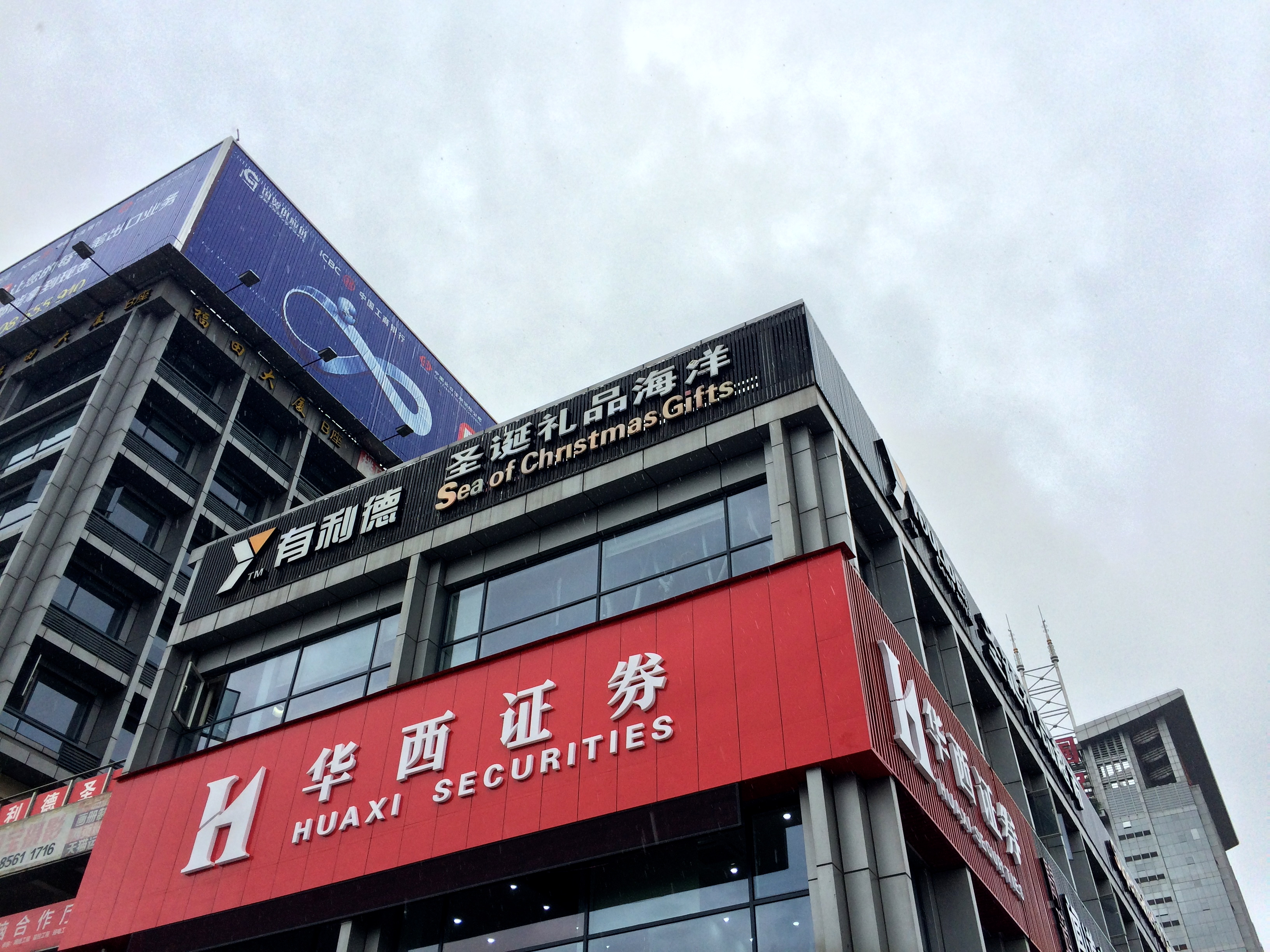 Buildings near Futian market cluster in Yiwu, China